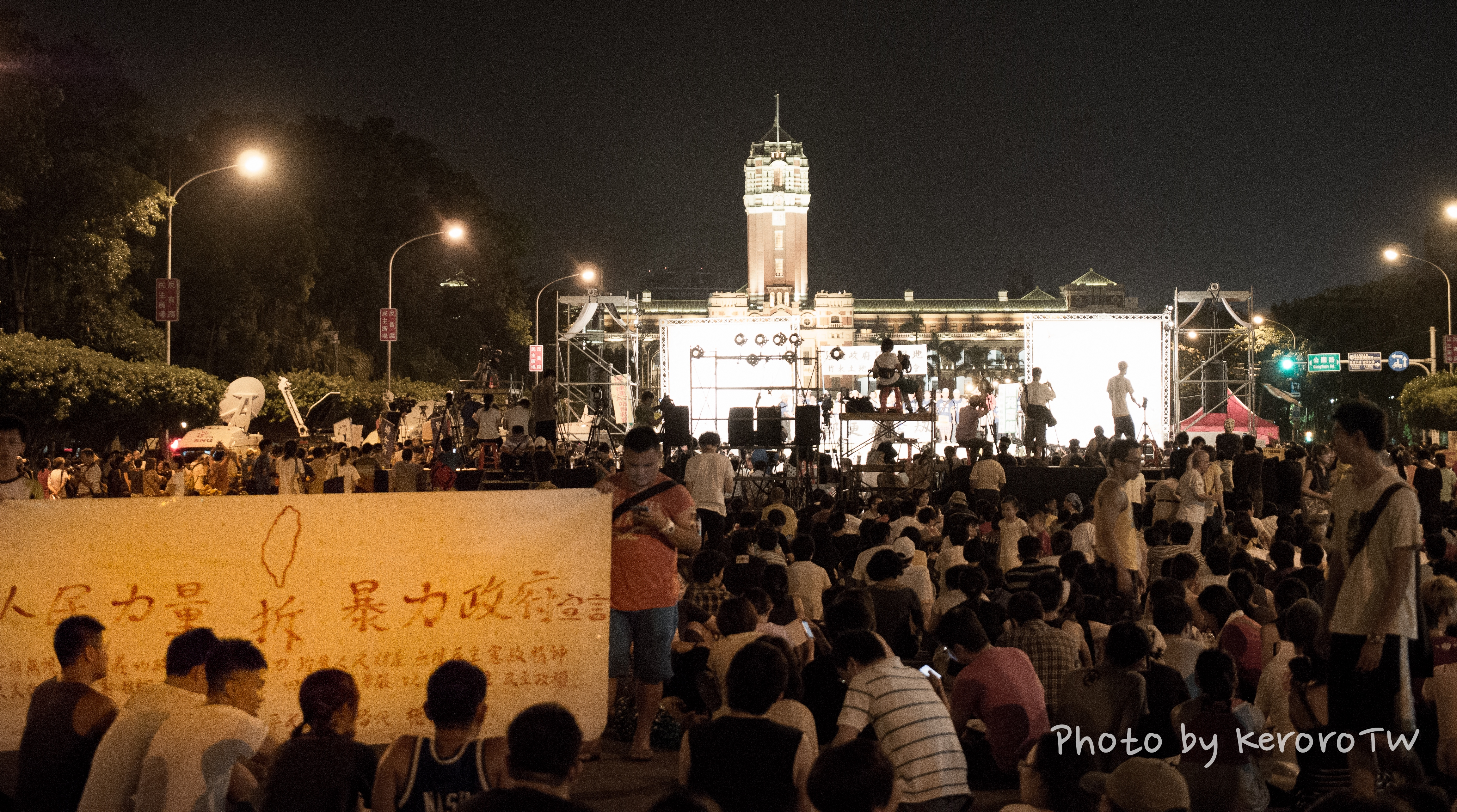 臺北市總統府前「把國家還給人民」萬人拆政府抗議活動